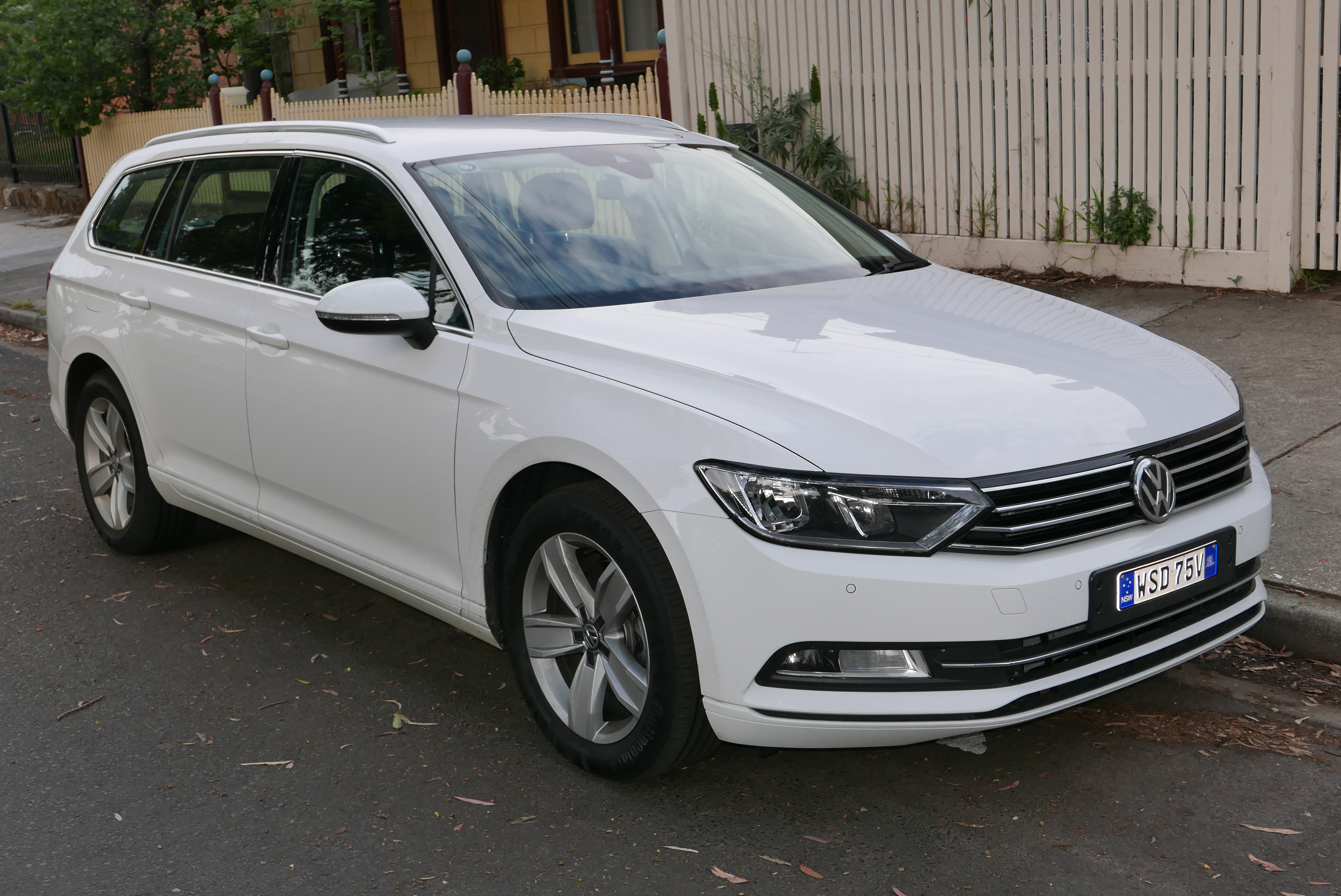 2015 Volkswagen Passat (3G MY16) 132TSI station wagon. Photographed in Brunswick, Victoria, Australia.